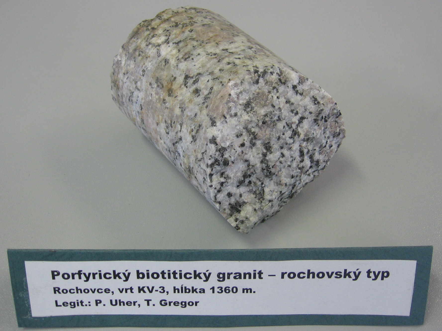 Core sample of Rochovce granite, coarse-grained biotite monzogranite (75.6 ± 1.1 Ma – Cretaceous). Core diameter 5 cm. From borehole KV-3, depth 1360 m, Rochovce, Slovakia. Sample from collection of Geological institute of Slovak Academy of Sciences.